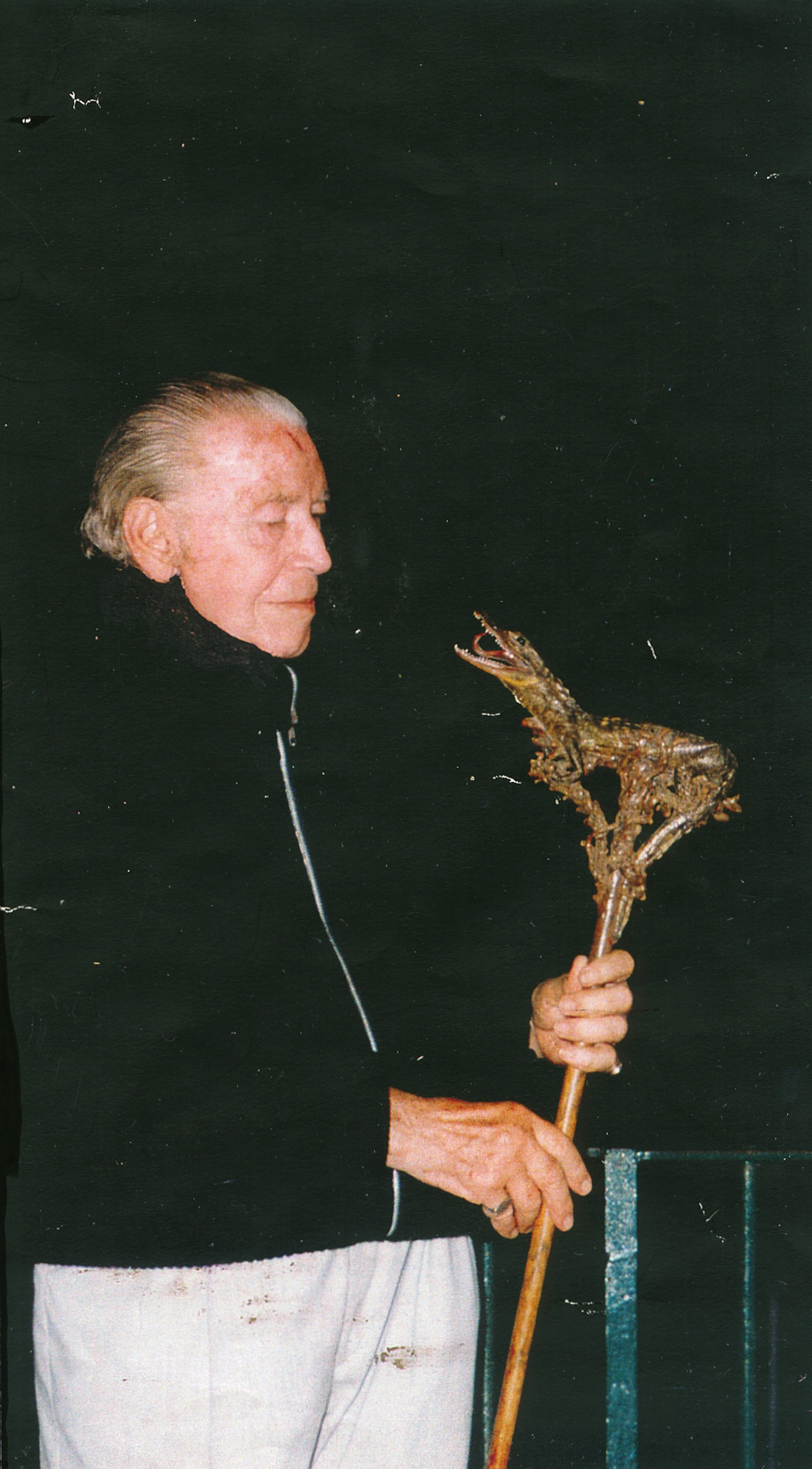 EricdeKolb.JPG Photograph of Eric de Kolb. Photograph owned by Mrs. de Kolb (copyright owner.) Mrs. de Kolb has granted B. Stettner permission to show this photograph of her late husbånd on Wikipedia and Wikimedia Commons. License: CC-by-3.0, copyleft